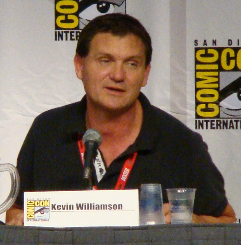 Kevin Williamson – Comic-Con 2010 – "The Vampire Diaries" Panel